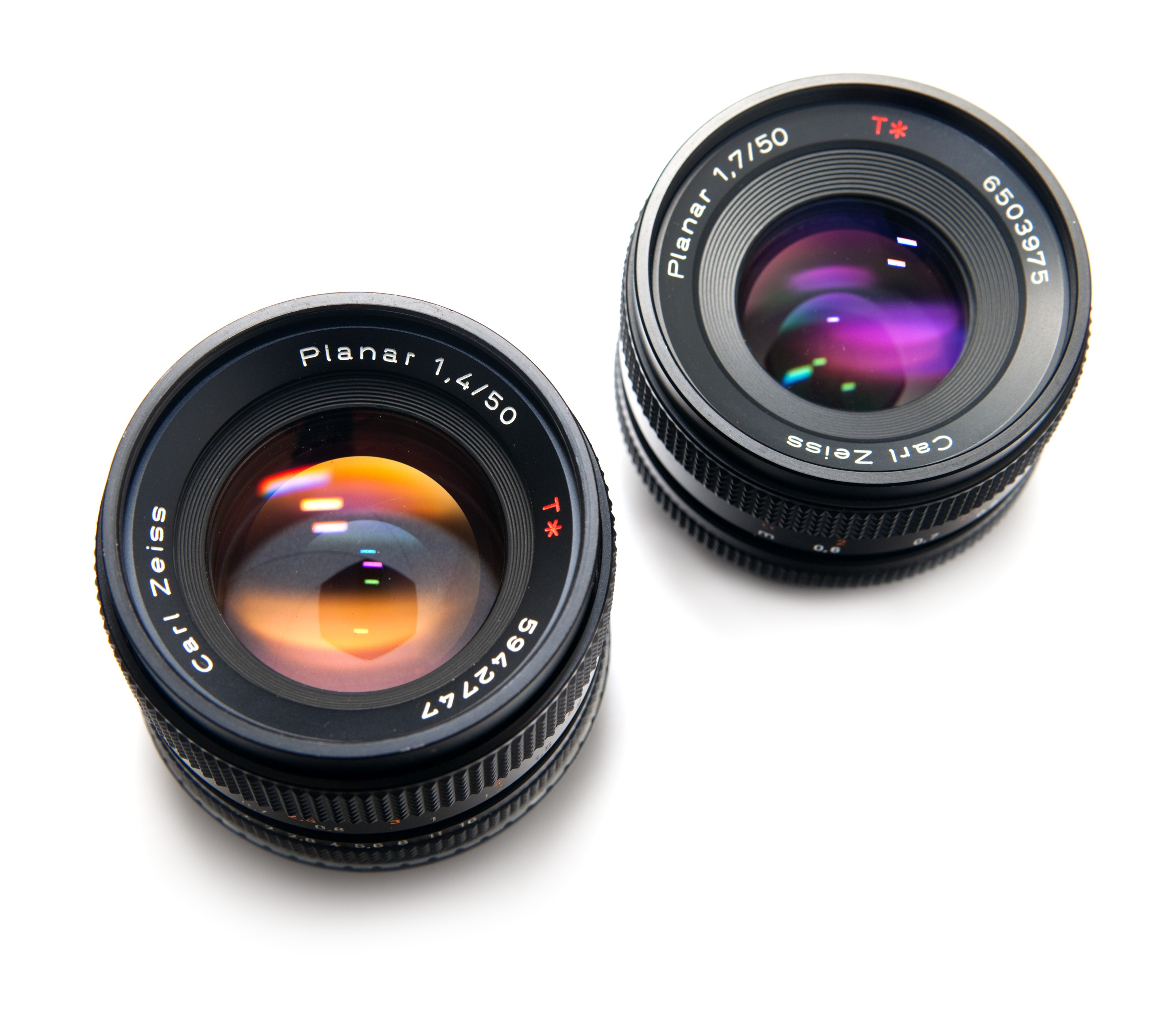 A pair of Zeiss Planar lenses; 50mm f/1.4, 50mm f/1.7